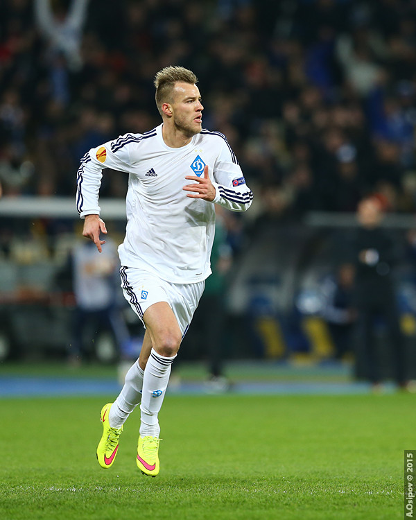 UEFA Europa League 2014-15 1/8 Final NSK Olimpiyskyi - Kyiv 19/03/2015 - 19:00CET (20:00 local time) Round of 16, Second leg Dynamo Kyiv - Everton - 5:2 Goals: Yarmolenko 21 Lukaku 29 Teodorczyk 35 Miguel Veloso 37 Gusev 56 Antunes 76 Jagielka 82 Aggregate: 6-4